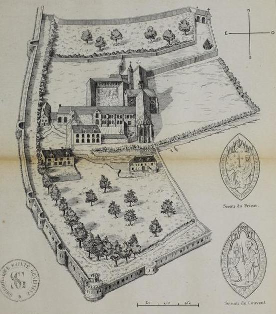 Litho of the monastery of the dominicans in Ypres